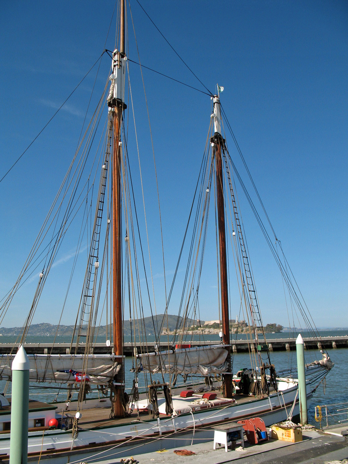 National Register of Historic Places in San Francisco, California. Starboard view of scow schooner "Alma", San Francisco Maritime National Historic Park, San Francisco, California, USA. Photographed 2008-03-08 by Mike Hofmann from Hyde Street Pier walkway. The "Alma" was built in 1891.